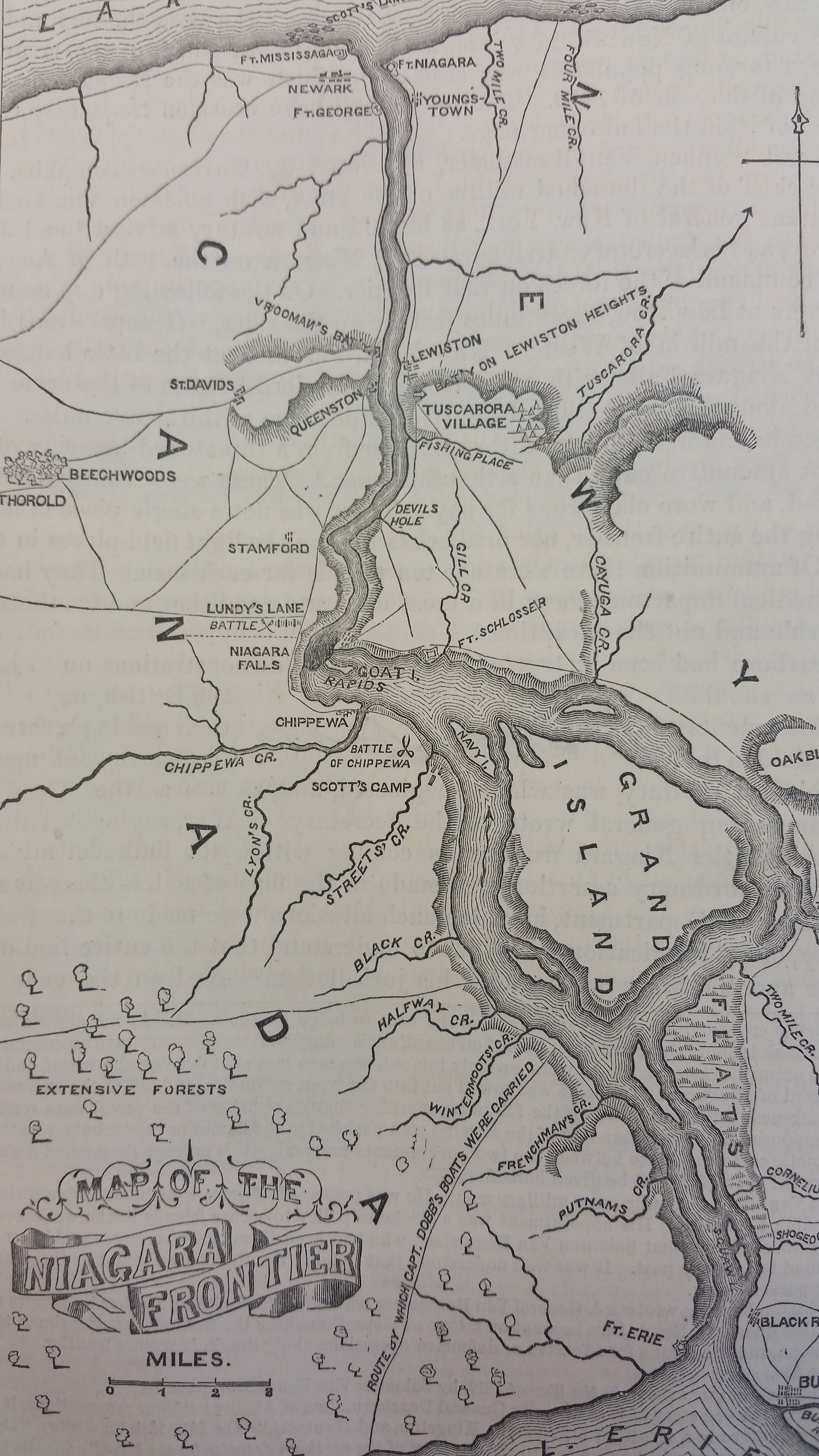 Tuscarora Reservation